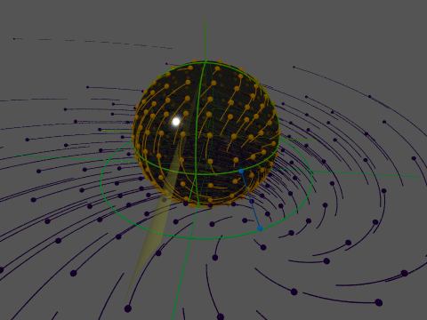 Mobius transformation, showing stereographic projection between plane and sphere. Generated with POVRAY. Povray file created with a java program.